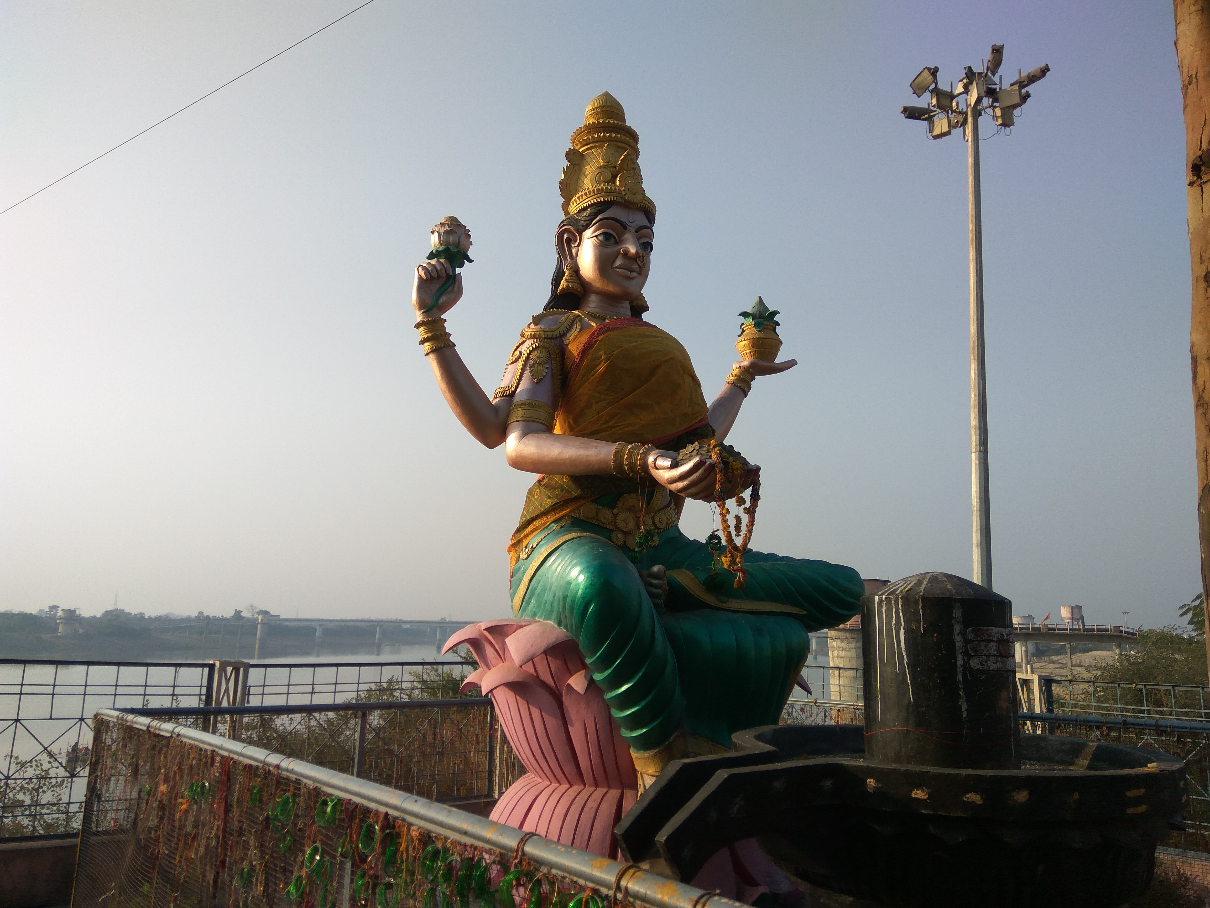 This statue is located beside Godavari river at Basar